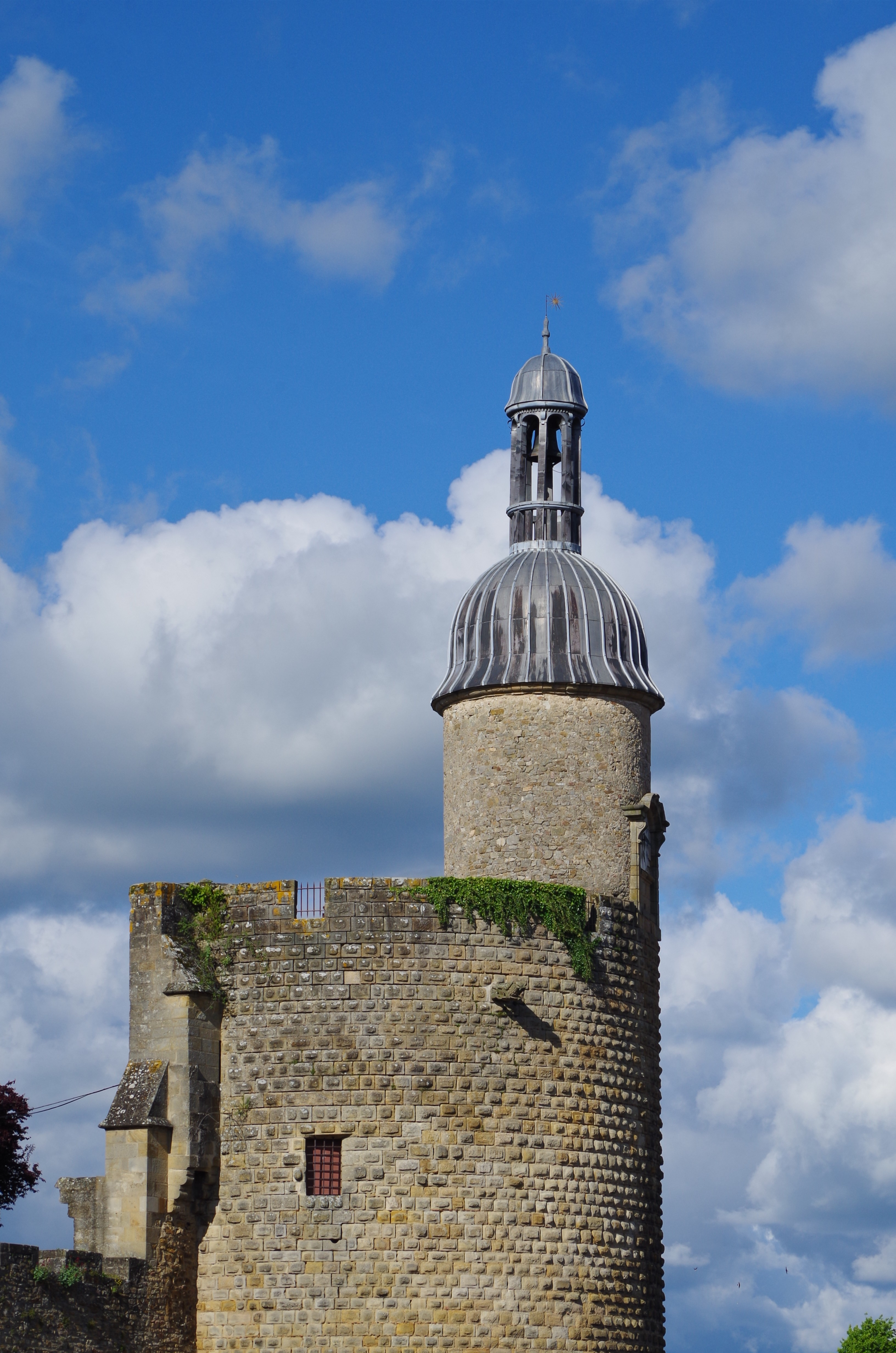 Qui qu'en grogne tower. Bourbon l'archambault